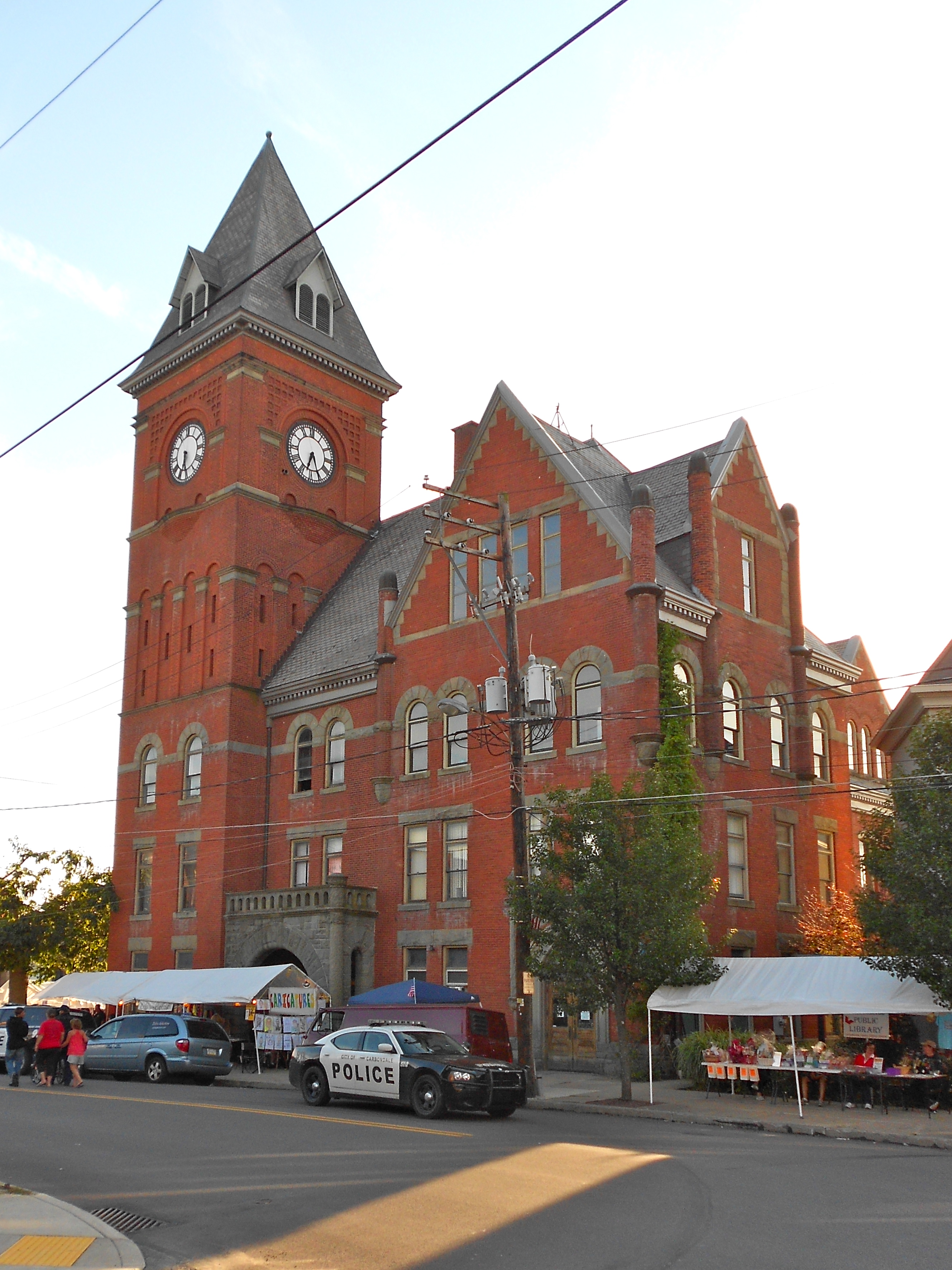 Carbondale City Hall and Courthouse, listed on the NRHP on January 6, 1983, at One North Main Street, Carbondale, Lackawanna County, Pennsylvania. NOT the county seat